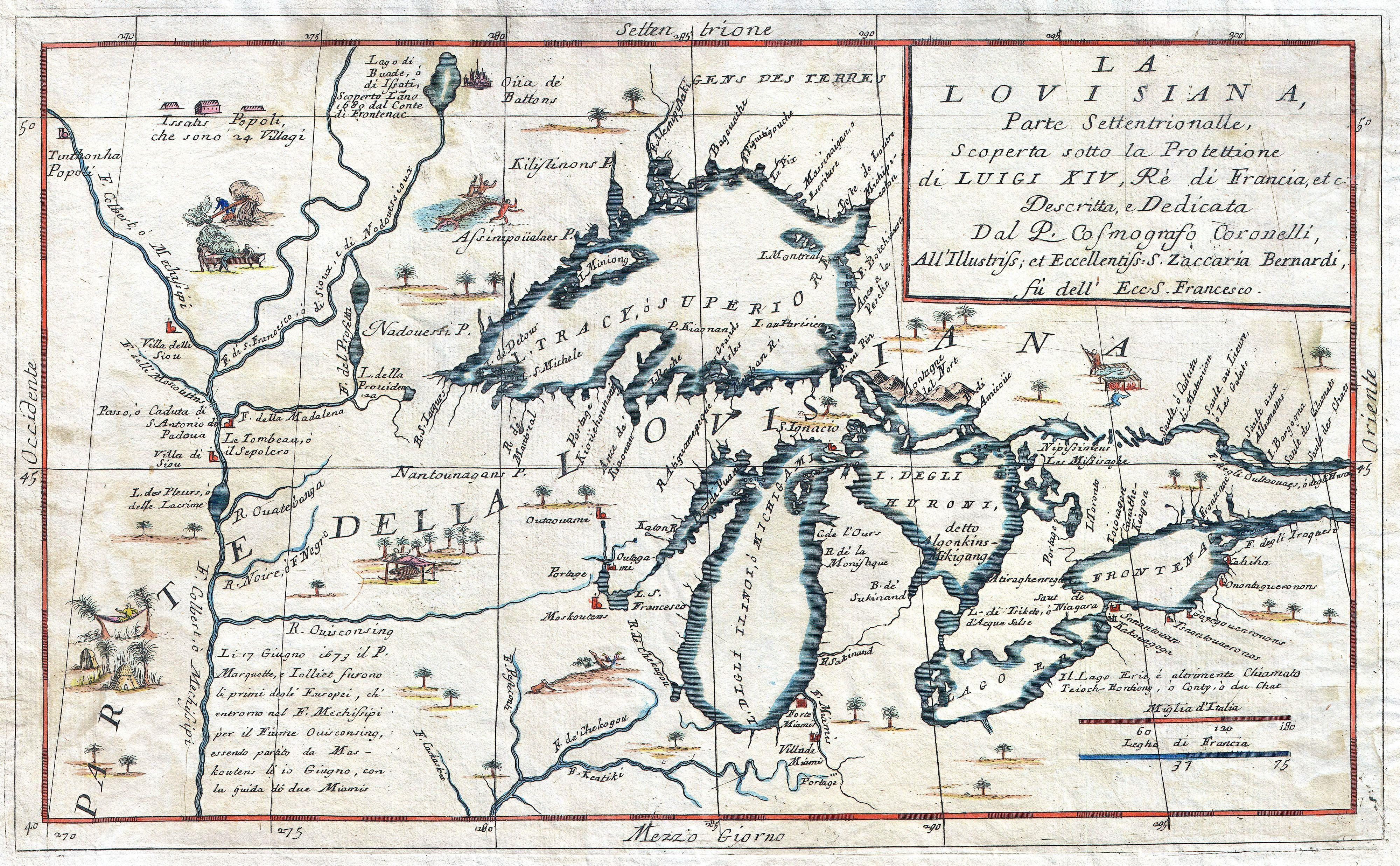 This exceedingly rare 1694 map by Vincenzo Coronelli is the most important depiction of the Great Lakes and the headwaters of the Mississippi River to appear in the late 17th century. Covers all five Great Lakes and extends westward as far as the Mississippi River valley. This map is a careful study of the Great Lakes Region and reveals Coronelli’s fascination with this area. Coronelli derived his cartographic information from the reports of Jesuit Missionaries who were actively proselytizing in this region throughout the mid to late 18th century. These included the explorations of La Salle, Hennepin, Marquette and Jolliet, among others. Dotted with forts, Indian villages, and missionary stations. Shows the R. De Chekagou roughly where Chicago is today. Shows the Ottawa River route into Georgian Bay anda well developed mapping of Green Bay. This is also the most accurate early mapping of Lake Superior, in which both Keweenaw Peninsula (P. Kioanan) and Isle Royale (I. Miniong) are located. Features none of the mythical islands that appear in the Bellin map which appeared 100 years later. Decorated with numerous wonderful vignettes depicting the lives of American Indians. One in particular, a crocodile eating a man, is interesting and incongruous. This map is essentially an elaboration upon the 1688 Nolin/Coronelli map, Partie Occidentale du Canada ou de la Nouvelle France…” It was prepared for inclusion in the second edition of Coronelli's important 1695 Atlante Veneto .